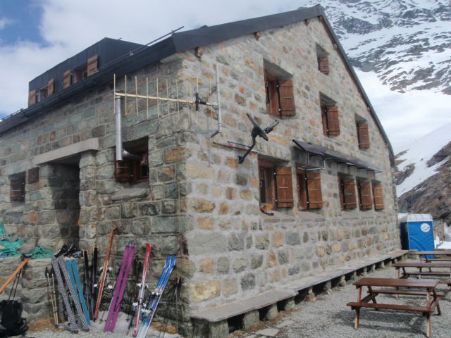 Chanrion Hut